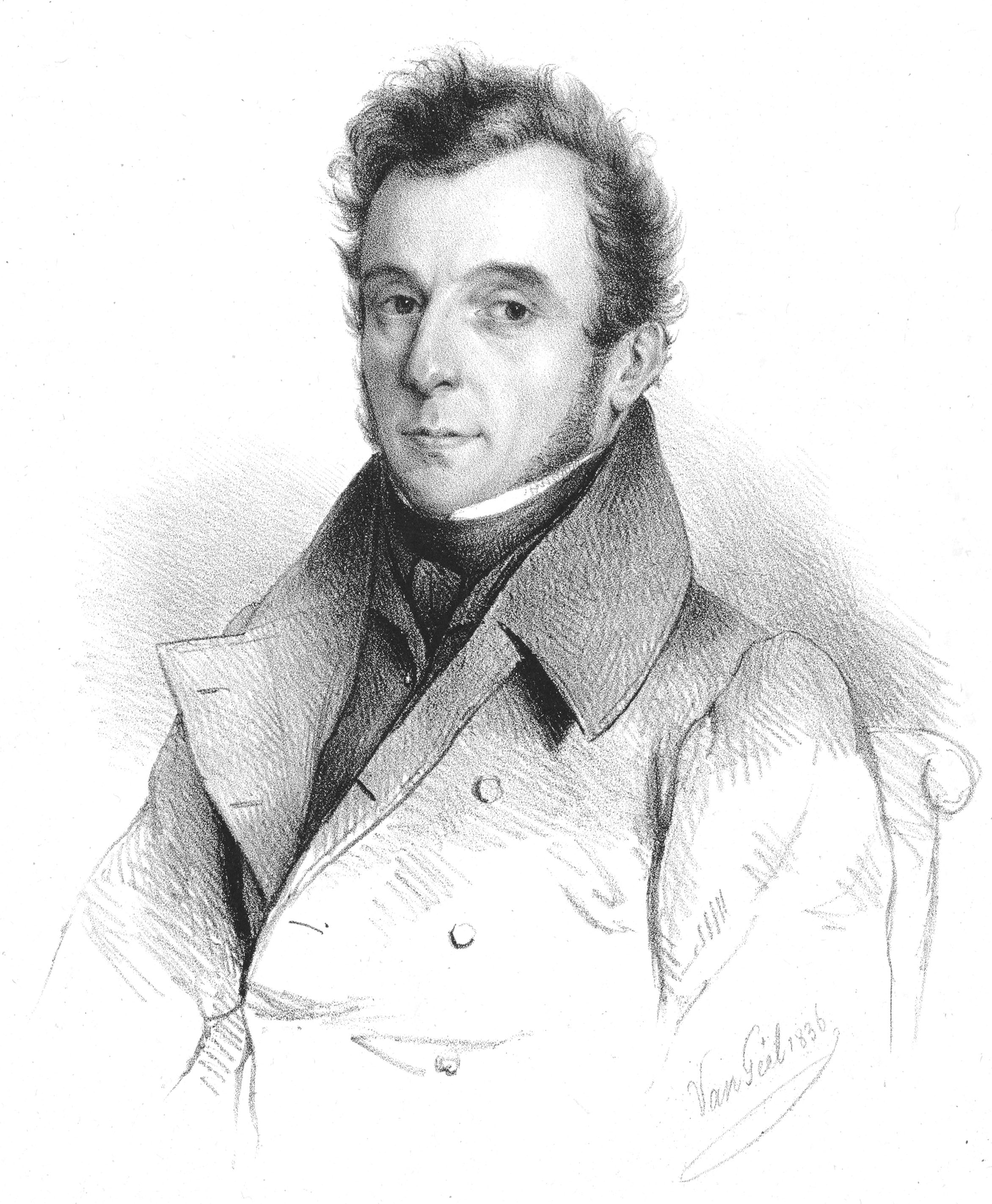 Portrait of the French conductor Henri Valentino, charcoal drawing by P. C. Van Geel